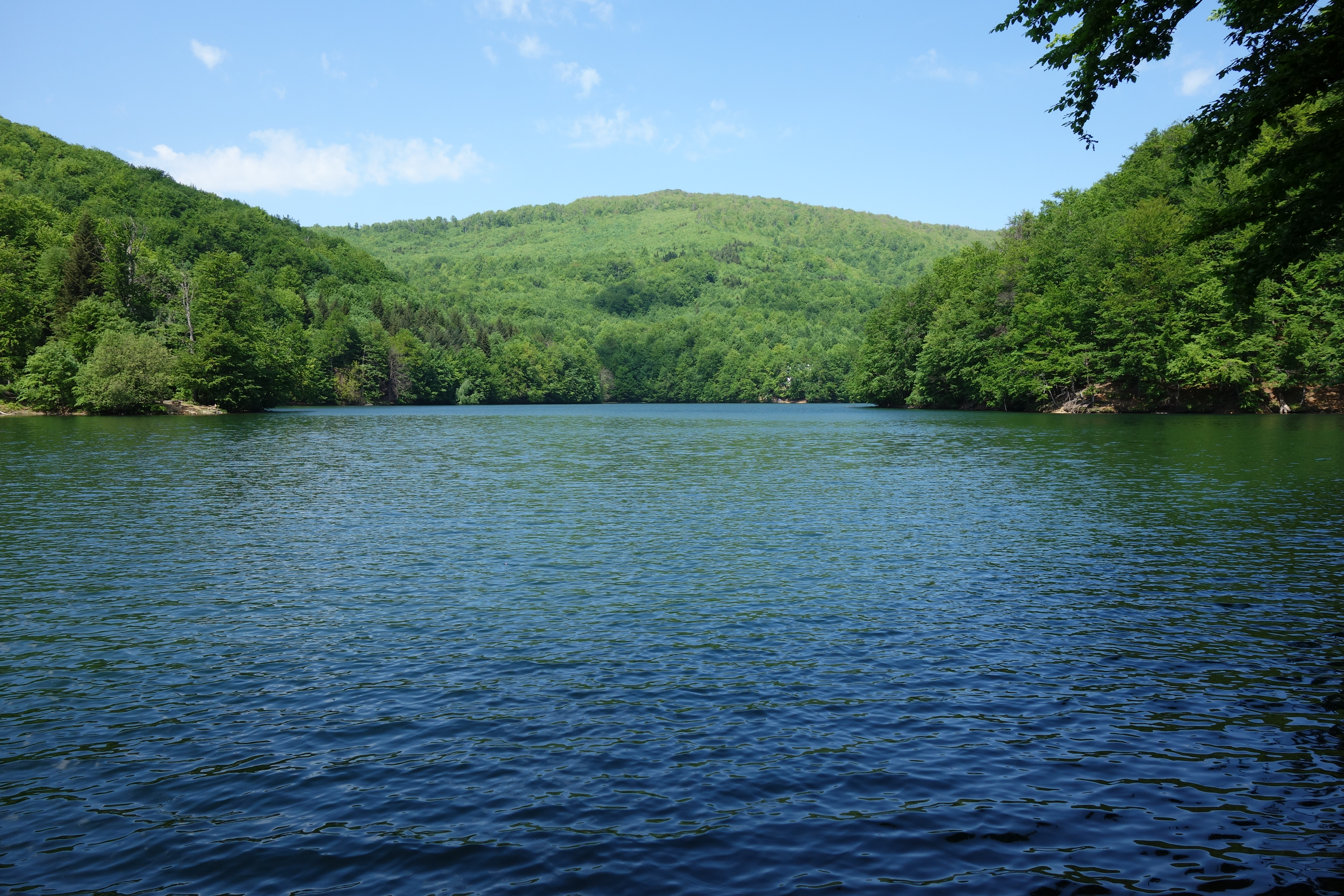 Sea Eye Lake and peak Sninský kameň This is a photography of Natura 2000 protected area with ID SKUEV0209